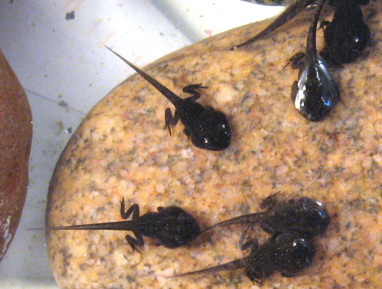 Spring peeper (Pseudacris crucifer) tadpoles, about 4-5 weeks old and ~24 hours away from complete metamorphosis.